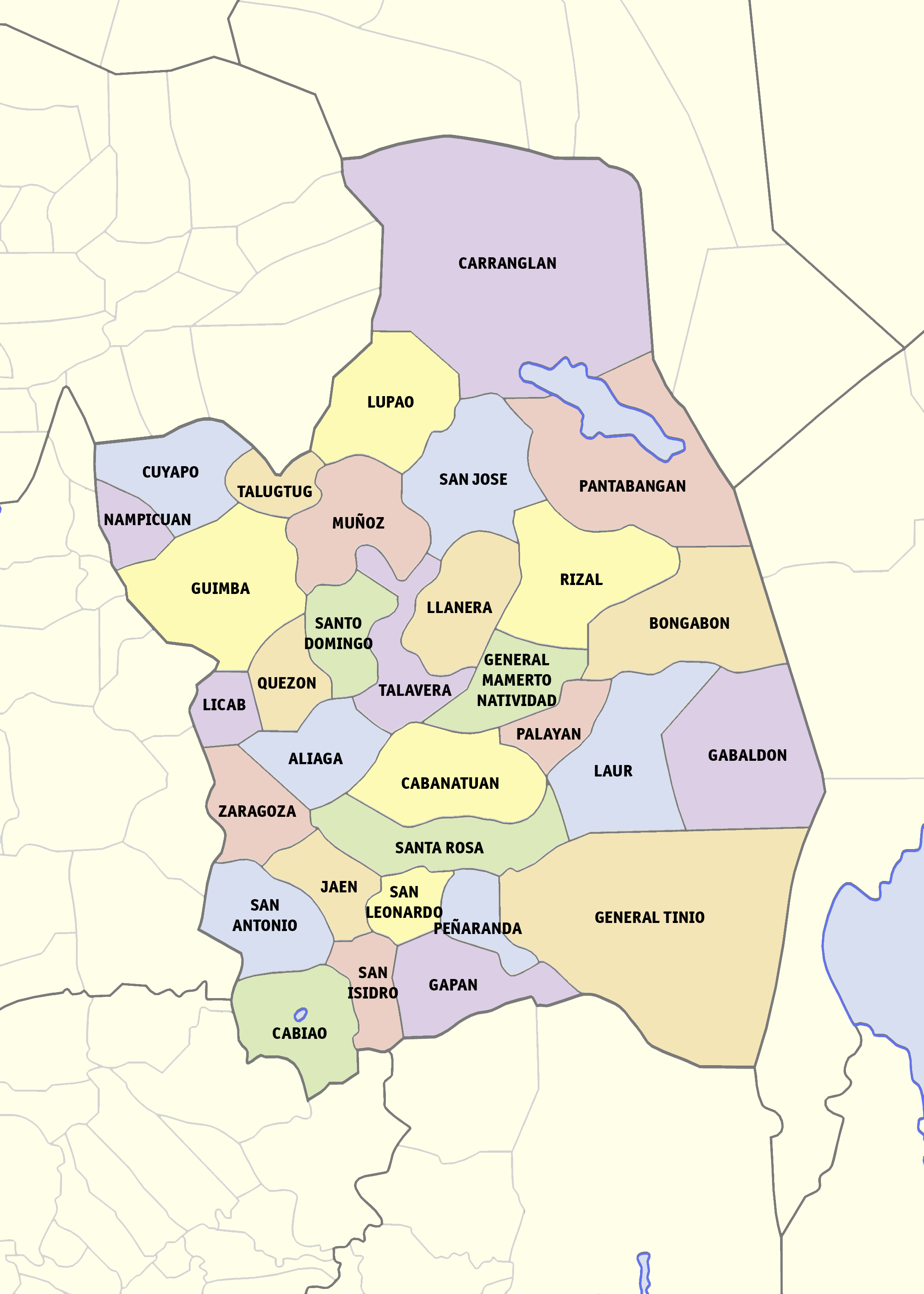 Political map of Nueva Ecija